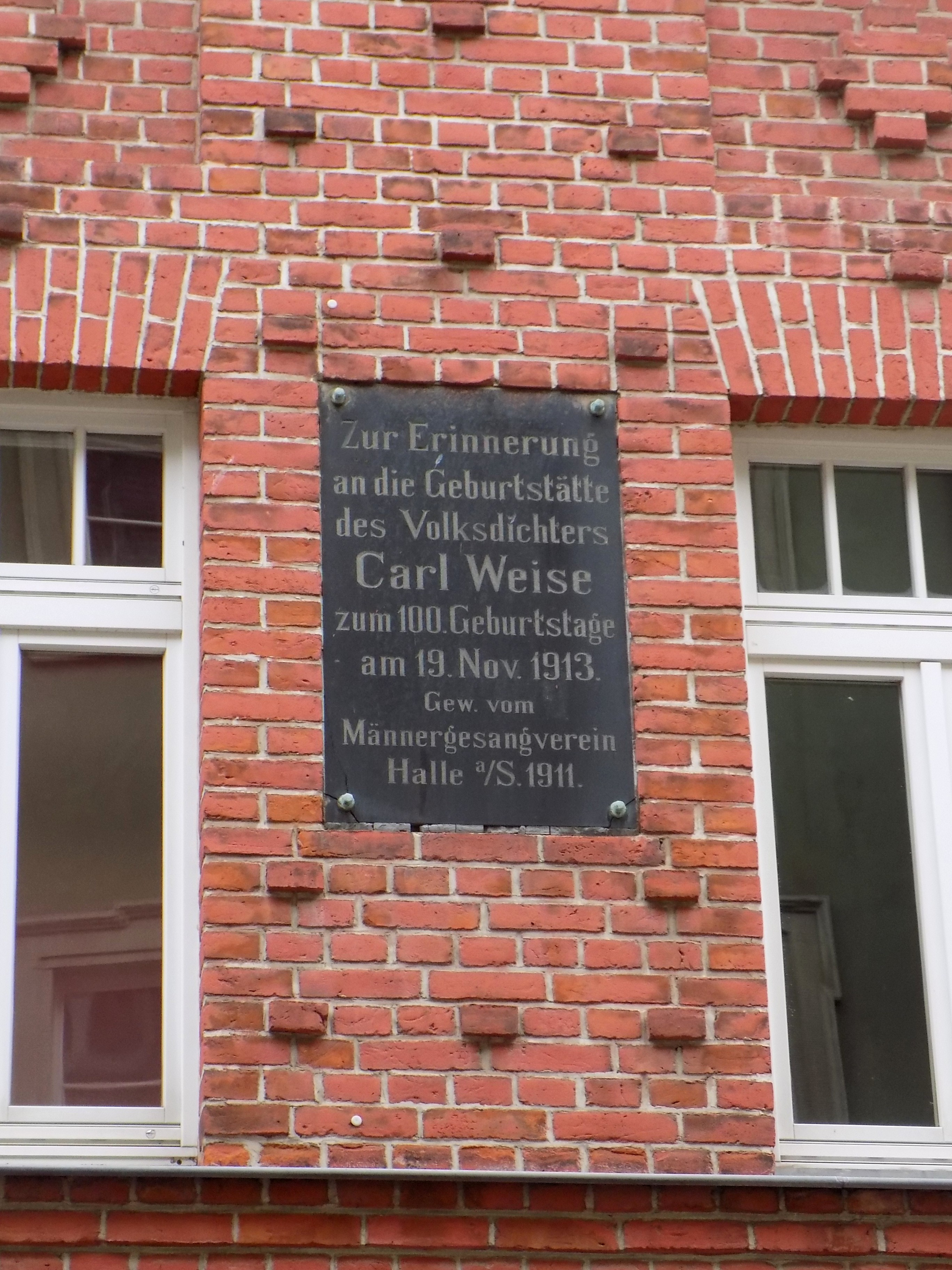 No. 31, Kleine Ulrichstrasse in Halle/Saale (Saxony-Anhalt), plaque to the memory of the poet Carl Weise (1813-1888)